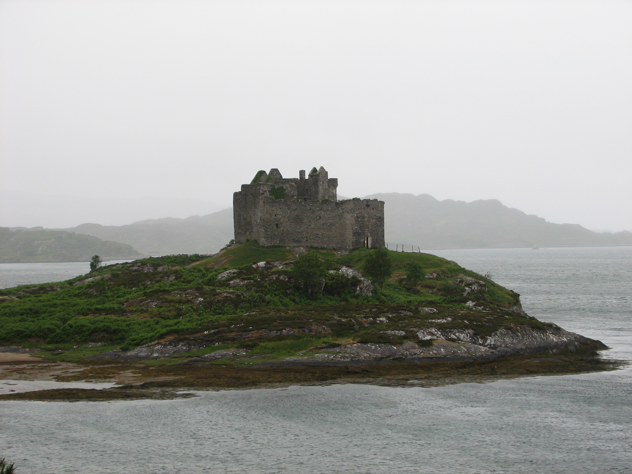 Tioram Castle in Scotland by Dave Wilkie.